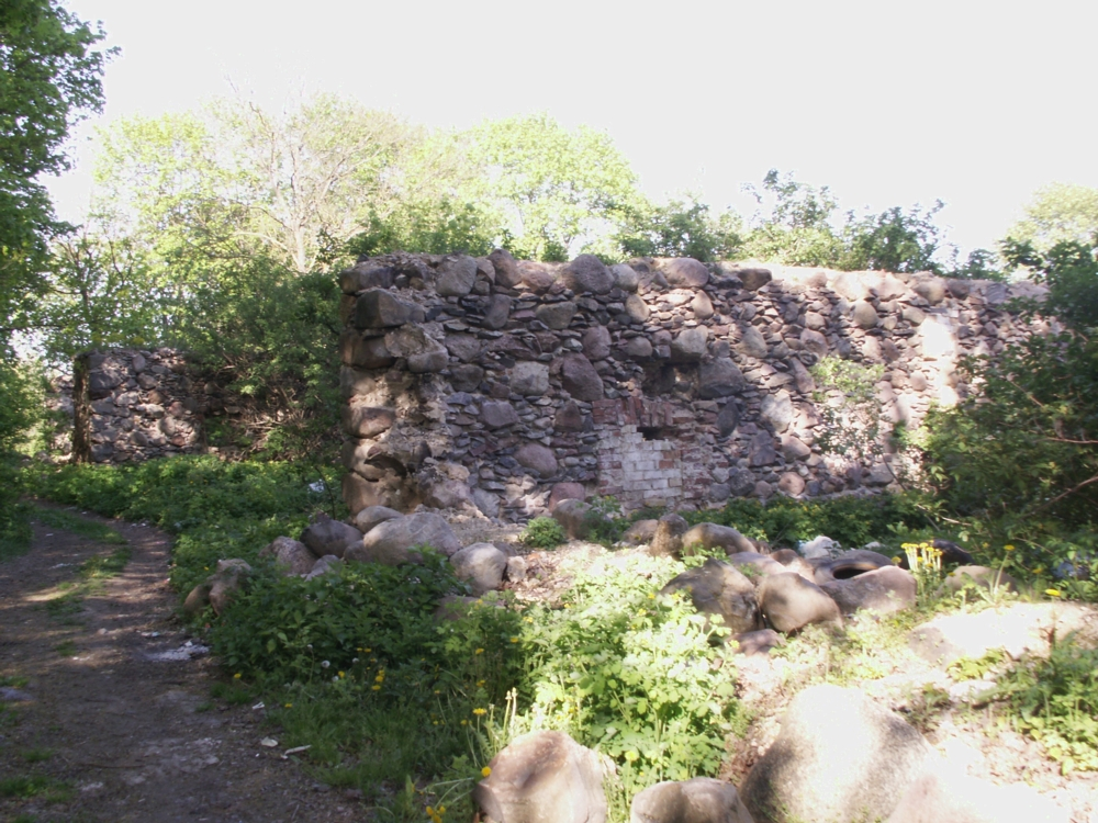 Šiauliai district, Lithuania